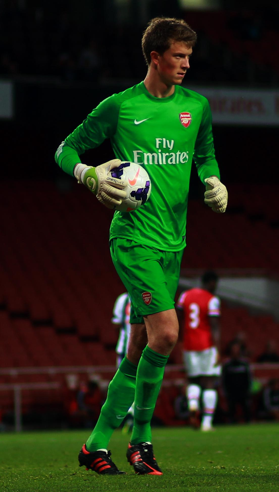 Matthew Macey of Arsenal Football Club against West Bromwich Albion Connect with me